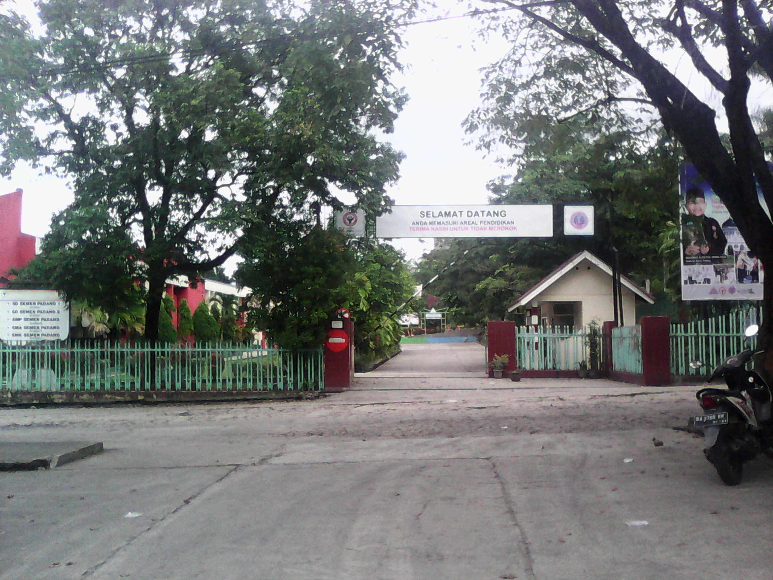 Gate of Igasar Semen Padang Foundation, an education foundation at Padang city, West Sumatra.